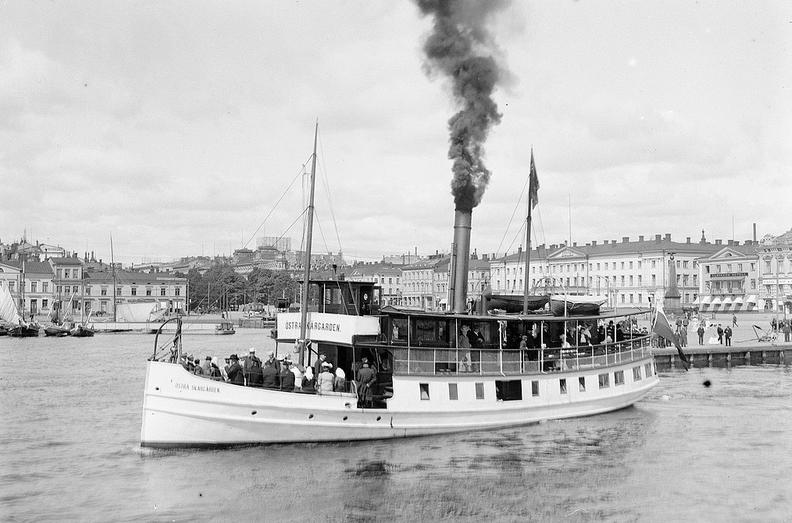 Östra Skärgården in Helsinki.